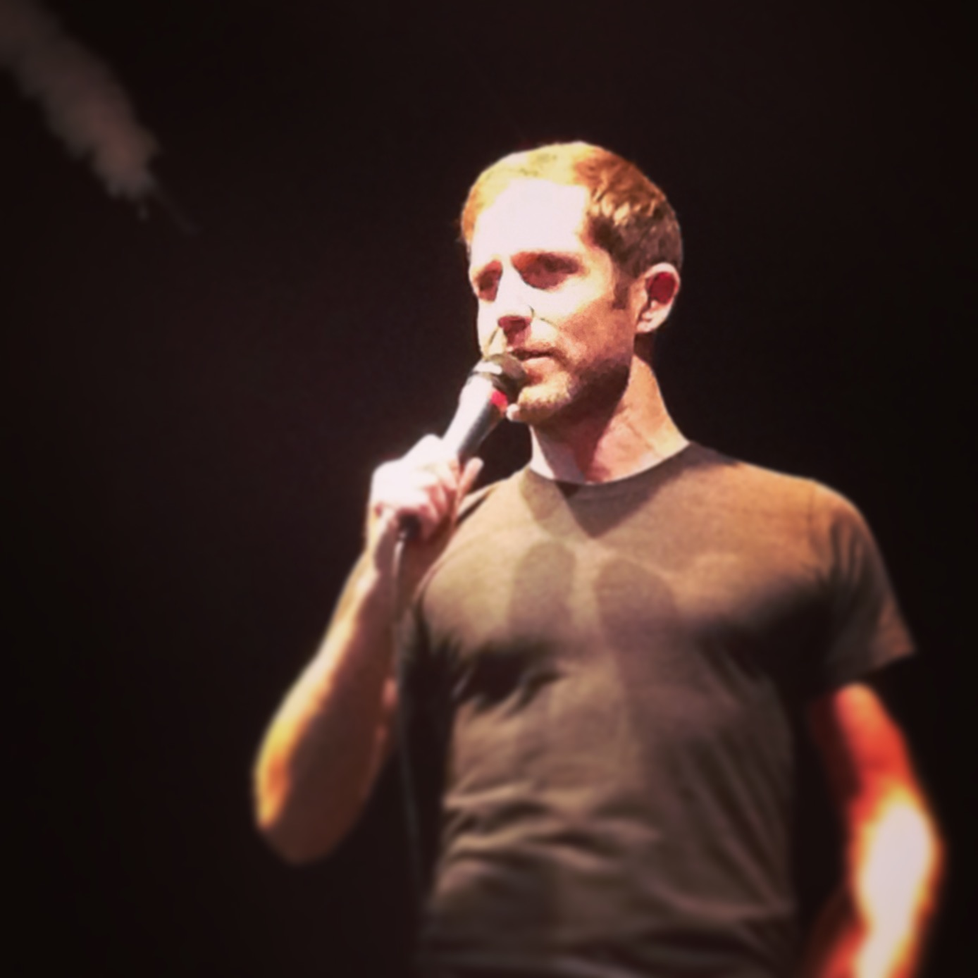 Comedian Andrew Orvedahl performs at the September 2014 Grawlix show.